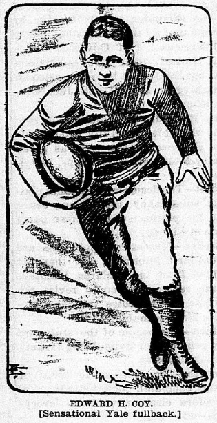 American football player Ted Coy of Yale University